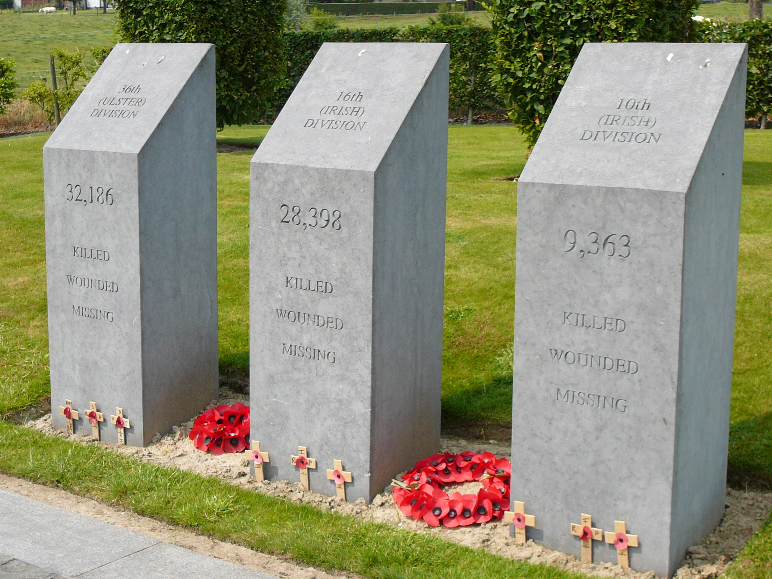 Image of three sculptured stone pillars dedicated to the Great War 1914-18 killed, wounded and missing of the three Irish volunteer divisions, the 36th (Ulster) Division , the 10th (Irish) Division and the 16th (Irish) Division. They stand alongside the pathway of the Island of Ireland Peace Park, Messines, Belgium.